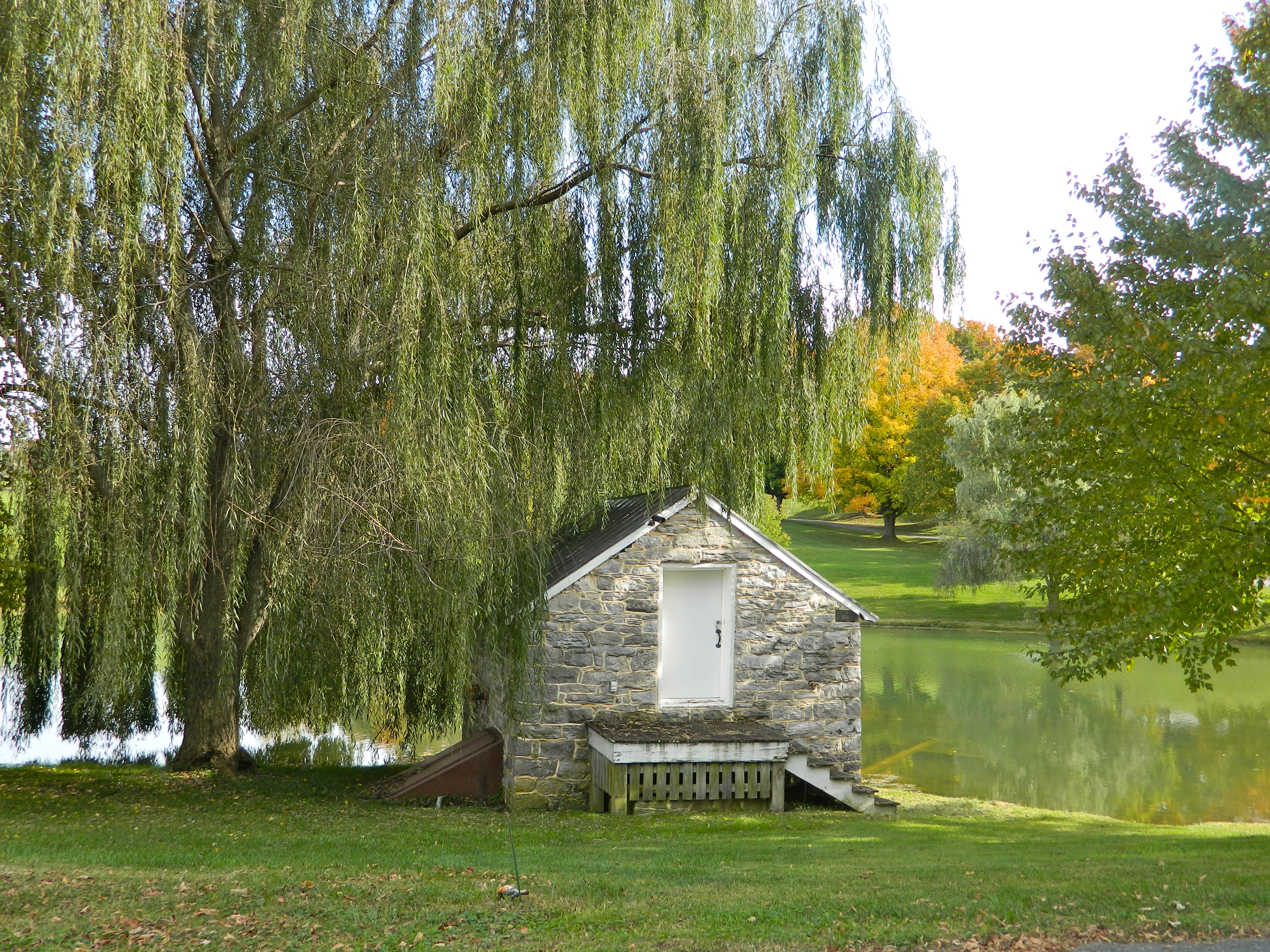 Spring House on Sugar Loaf Farm, Staunton, Virginia